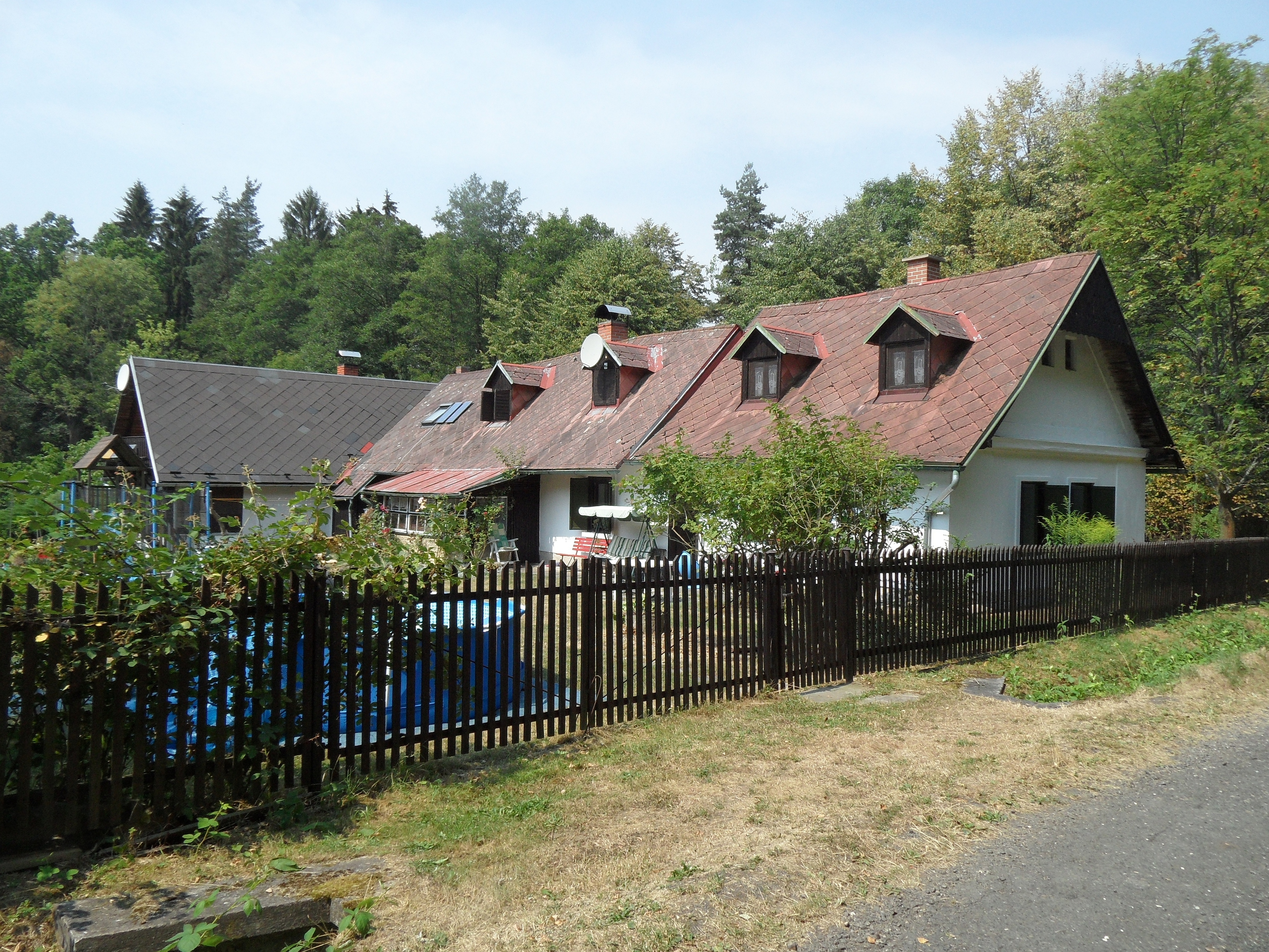 Švábínov A. The Only One Preserved Original Building, Overview from South. Kutná Hora District, the Czech Republic.